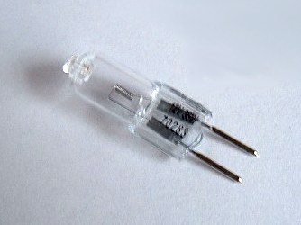 Bulb socket G6,35; 12V, 35W, 3000h.